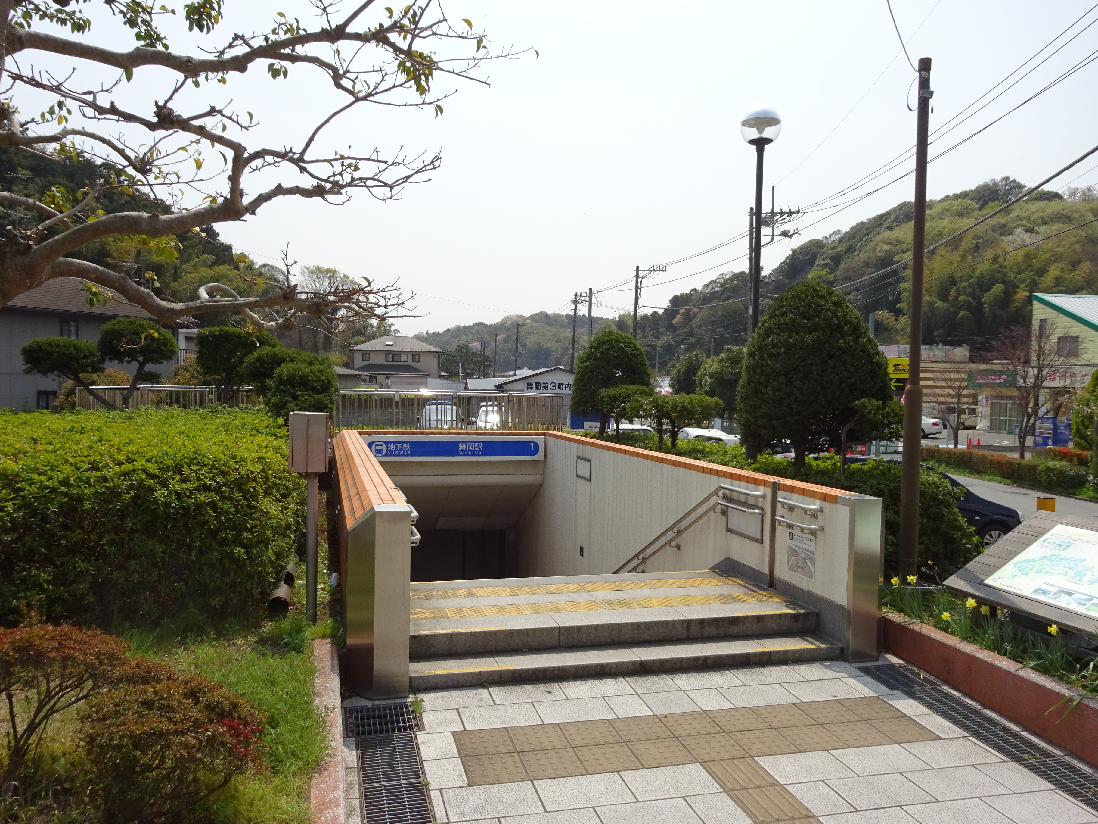 Maioka Station Exit No. 1